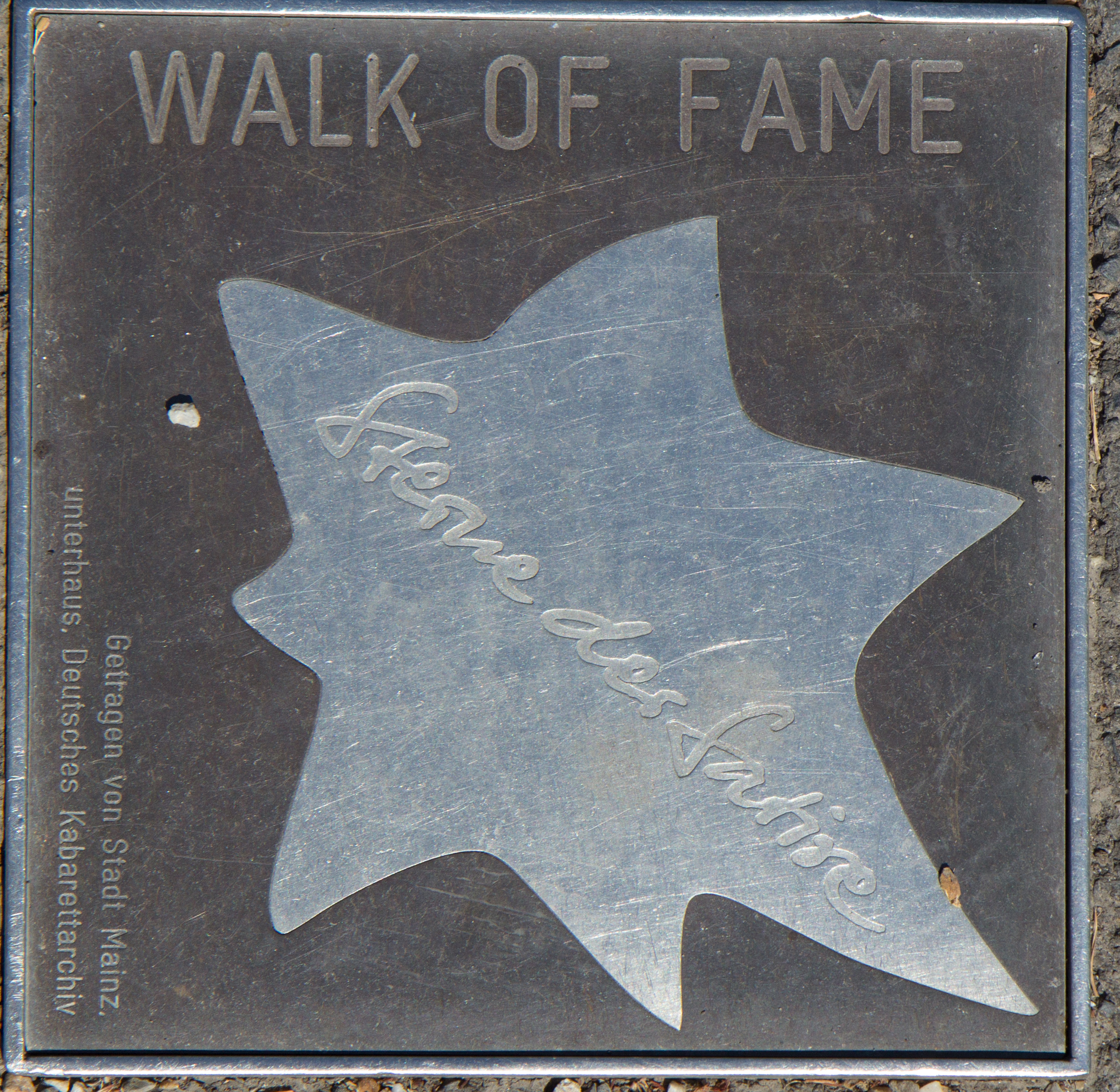 Walk of Fame of Cabaret